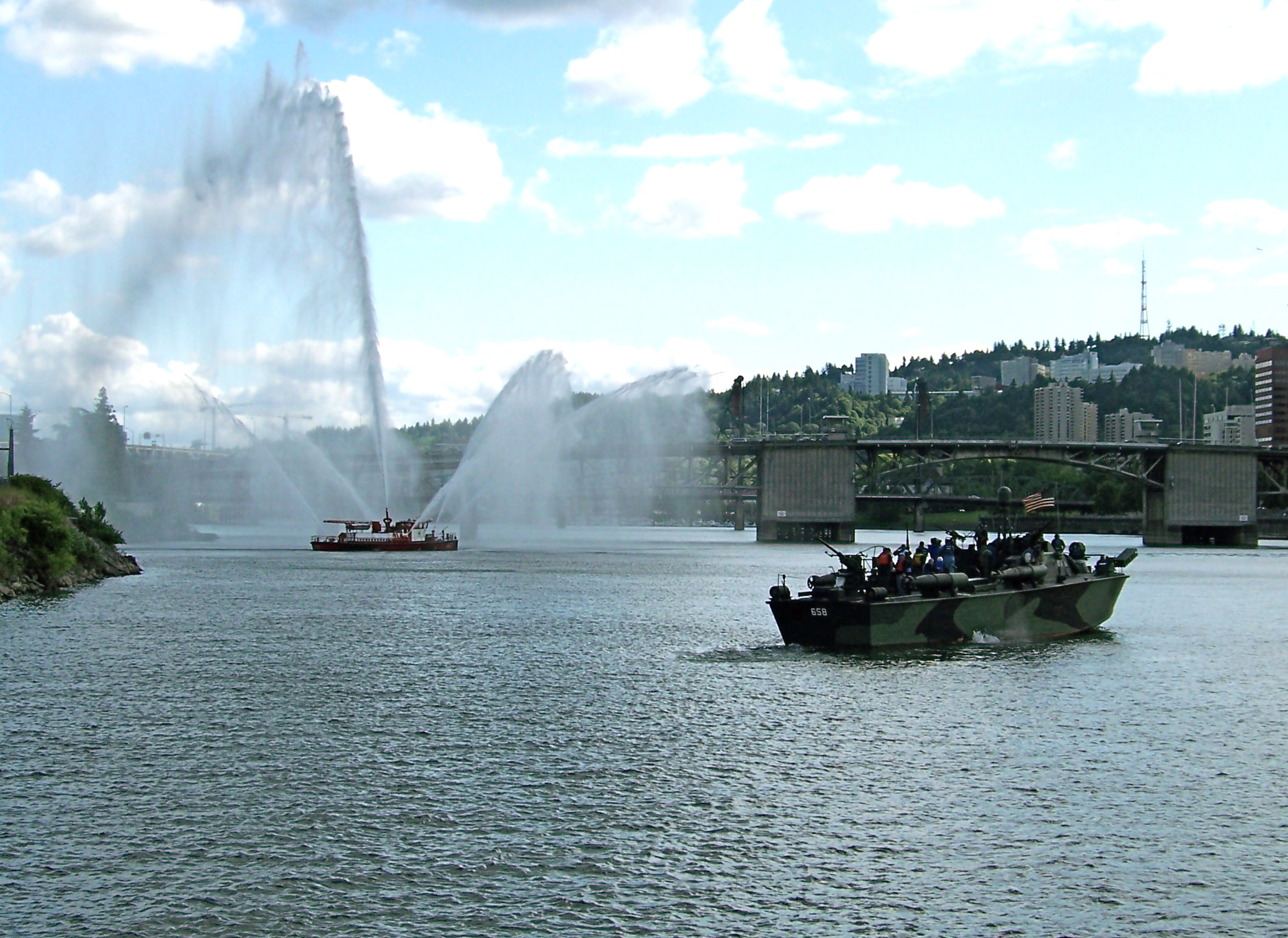 PT-658 (motor torpedo boat) PT-658 cruises by Portland Fire and Rescue's Fireboat David Campbell on the Willamette River in Portland, Ore., during the annual Rose Festival Fleet Week, June 5, 2012. Photo by Jonathan McCool